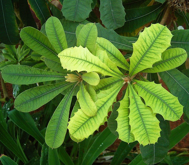 Banksia integrifolia. Leaves somewhat chlorotic, indicating iron deficiency.